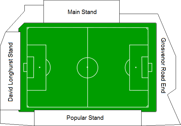 A schematic of Bootham Crescent, York City F.C.'s home ground